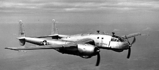 Fairchild XC-120 "Packplane" modular aircraft prototype, in flight without its detachable cargo container.